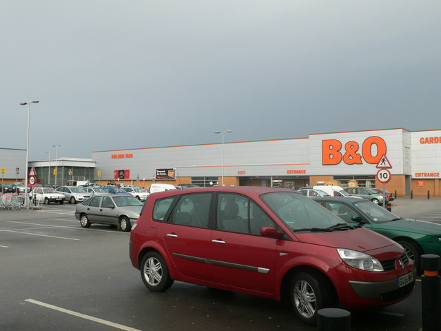 Queensferry Retail Park Small retail park just off the A56